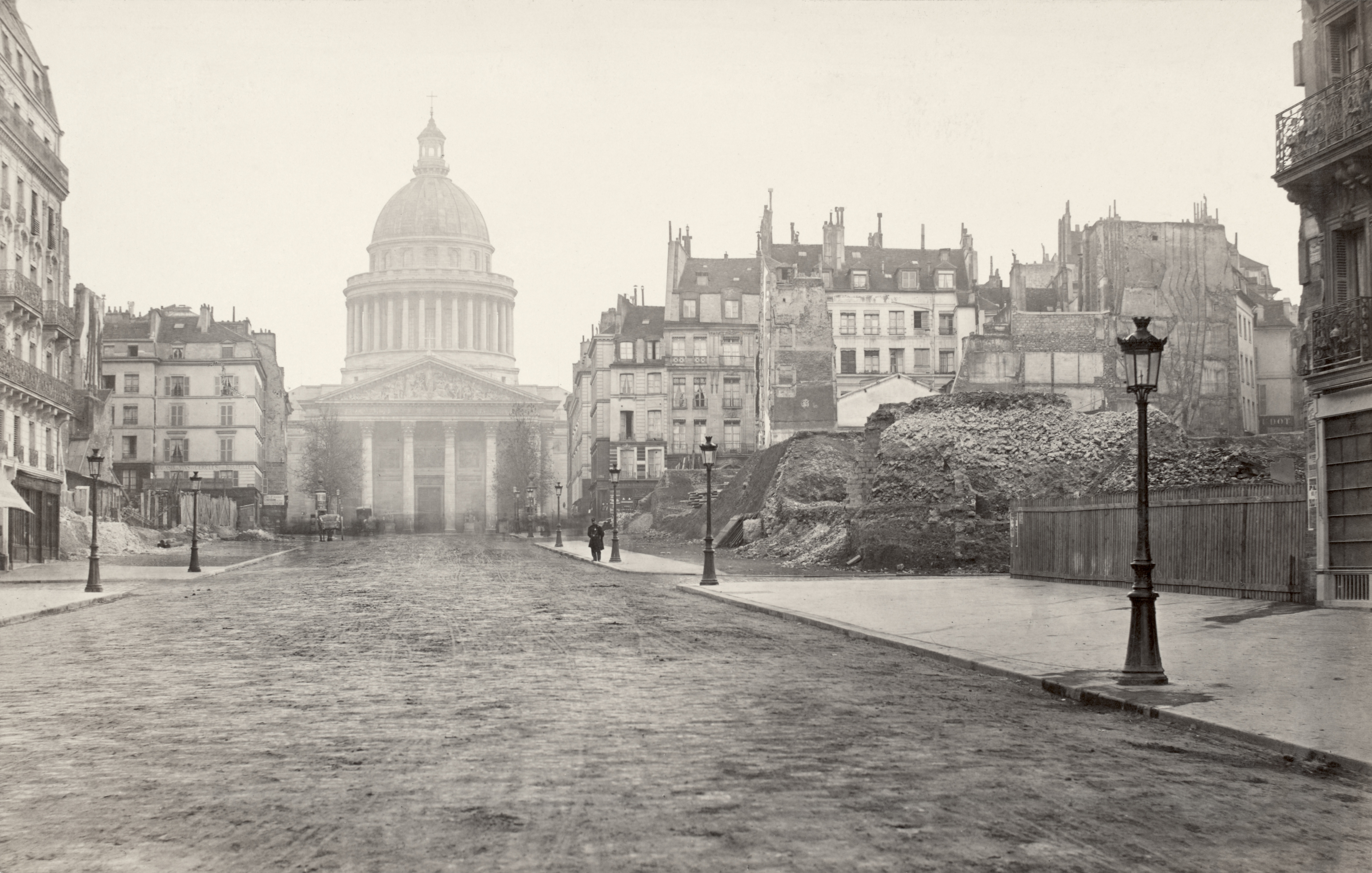 Looking along street towards the Pantheon during Baron Haussman's renovation of Paris, street lights lining each path, demolished buildings and rubble on right.